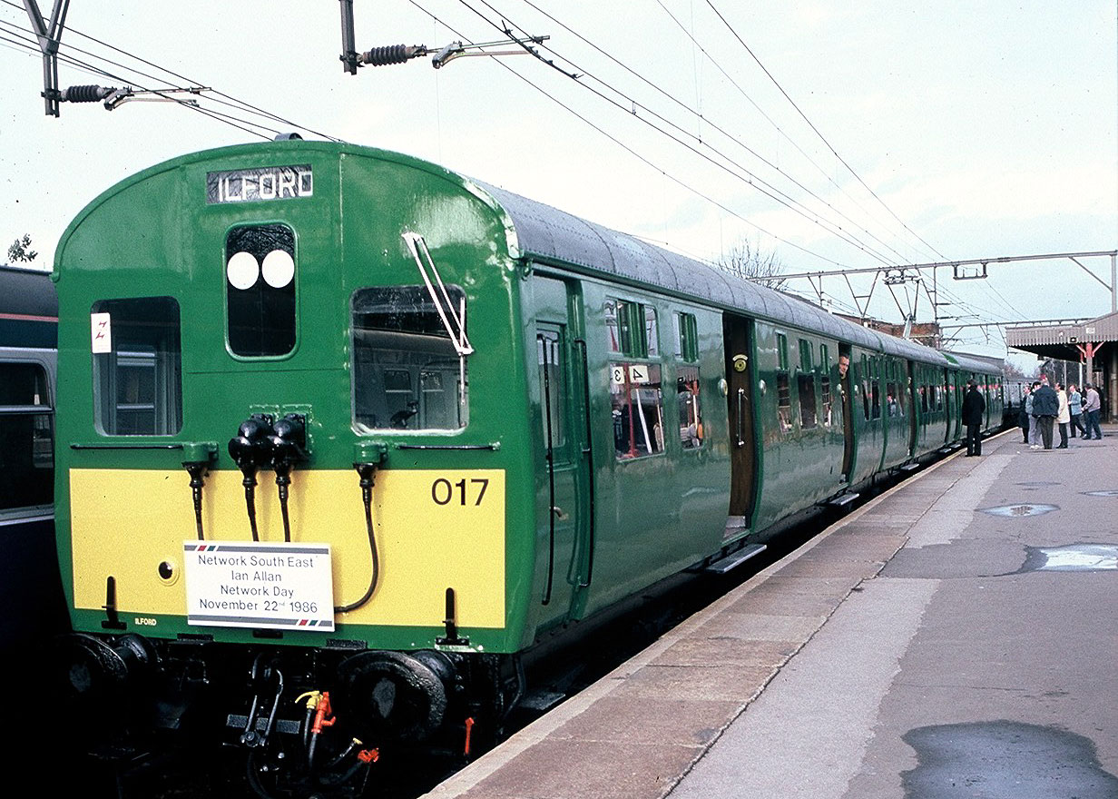 Class 306 EMU No 306017, the last of its class, returned to service in original green livery to operate a Seven Kings - Shenfield shuttle service as part of a Network Day sponsored by Ian Allan to mark the launch day of Network SouthEast. This view also shows the carriage which was not modified when the trains were converted from the dc to ac power supply system. The unit is at Shenfield.